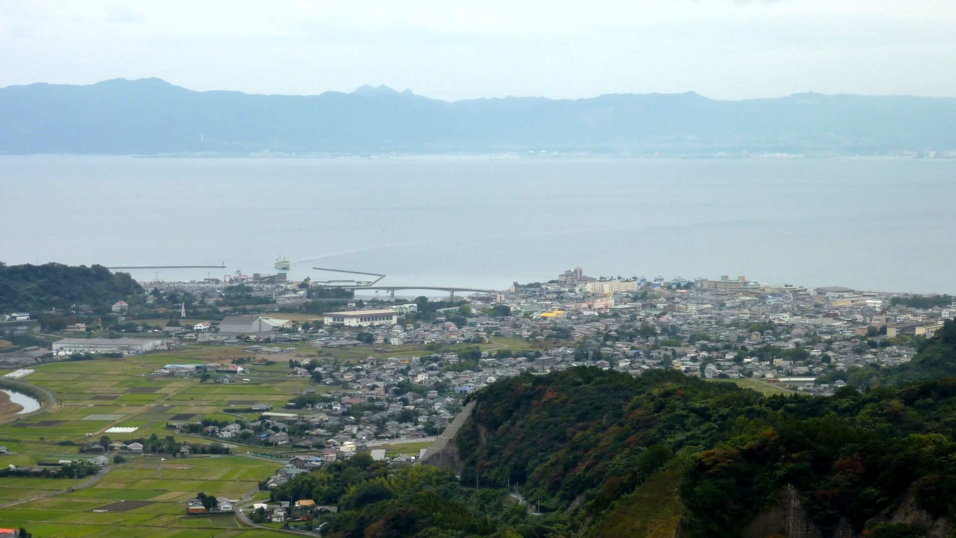 The Viewing of Central Tarumizu City, Kagoshima Prefecture, Japan